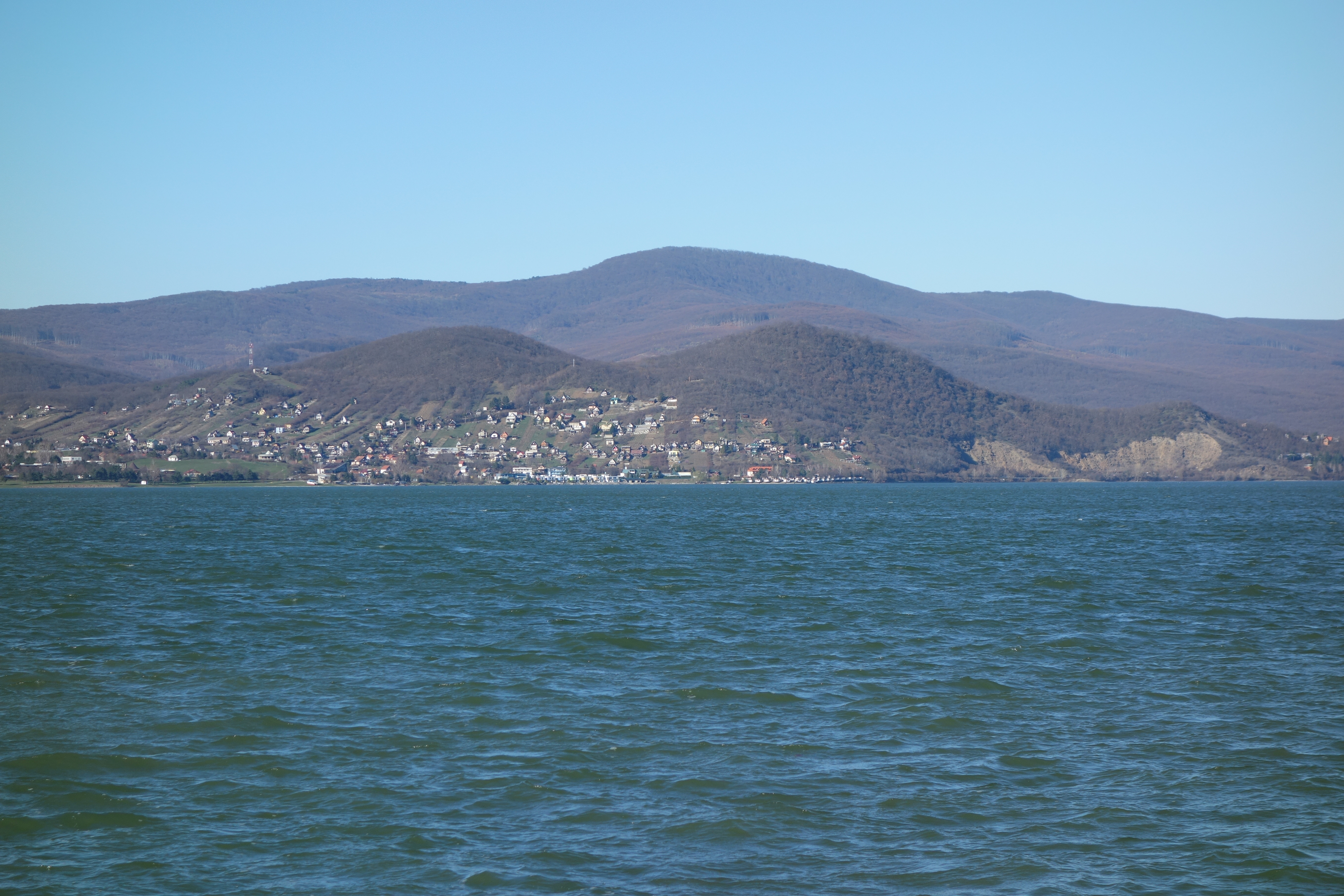 View of Kyjov, Vihorlatské vrchy and Zemplínska šírava